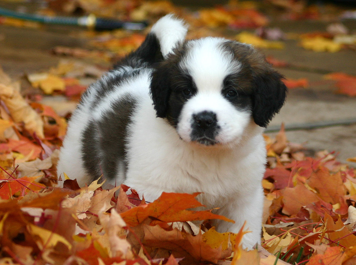 St. Bernard pup enjoying his first fall season